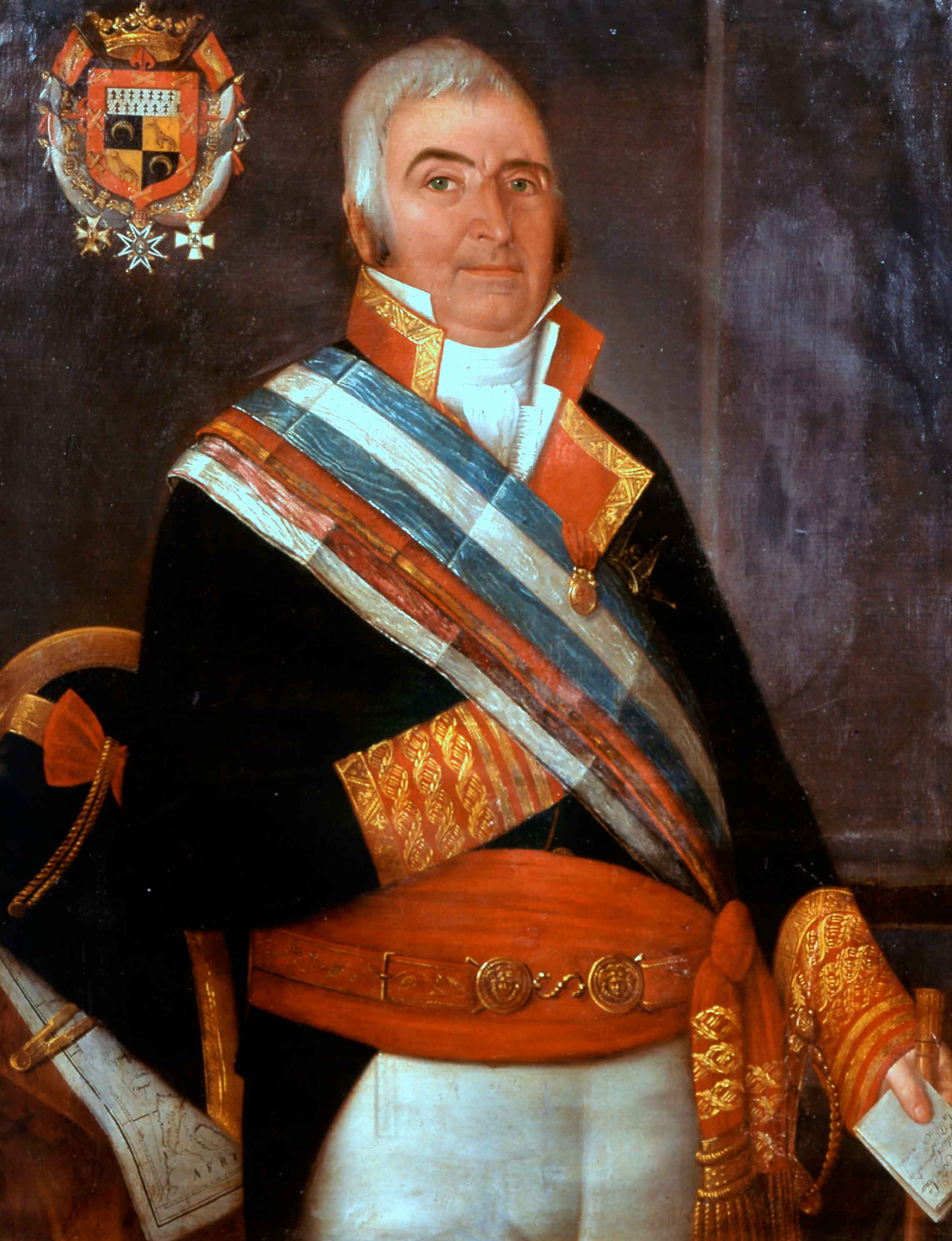 Portrait of the Admiral of the Spanish Navy Ignacio María de Álava (1750-1817)